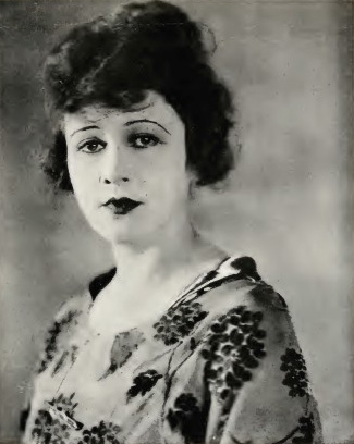 Actress Anna Q. Nilsson from Who's Who on the Screen, published by Ross Publishing Co., 1920 [1]